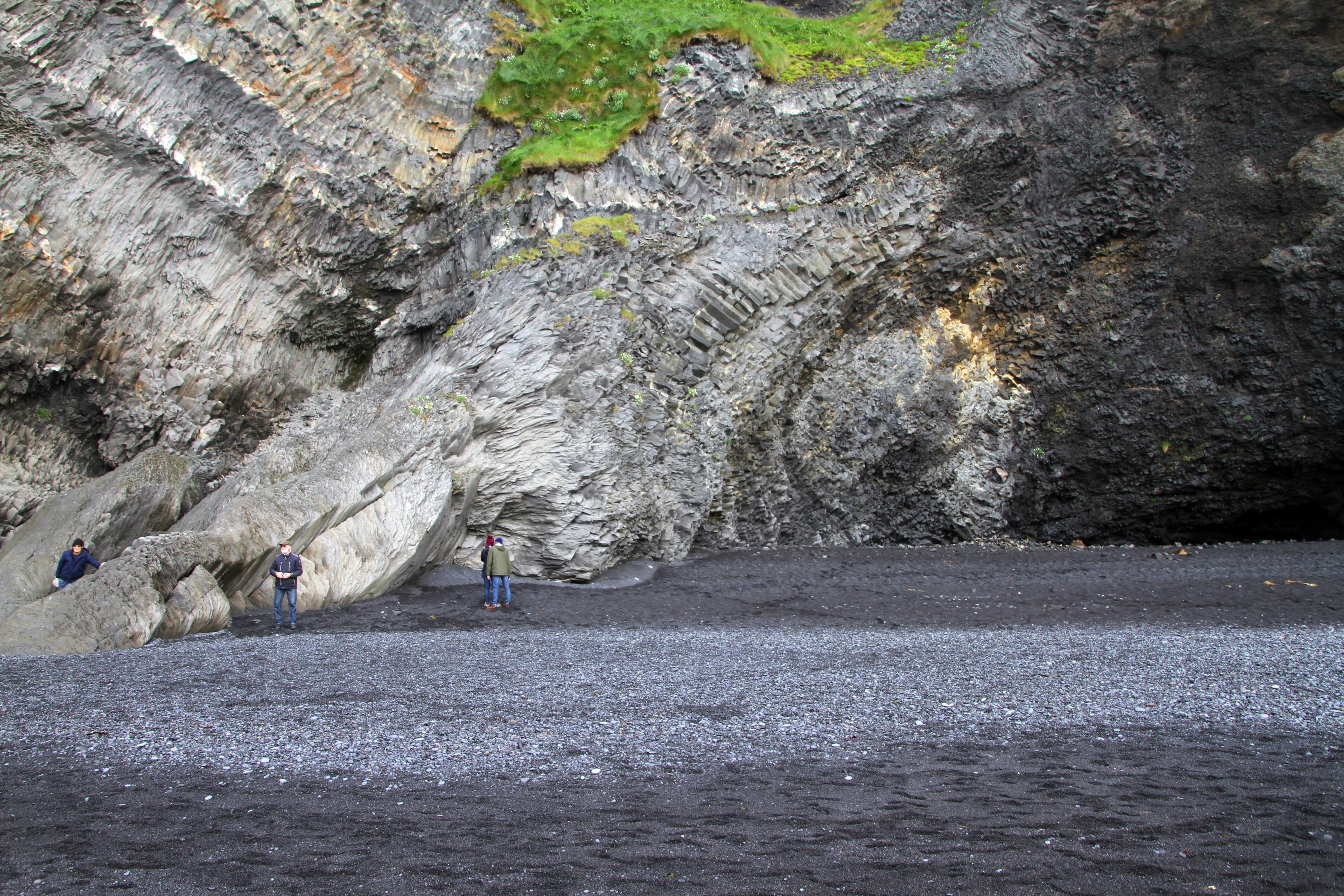 Columnar basalts at Reynisfjara